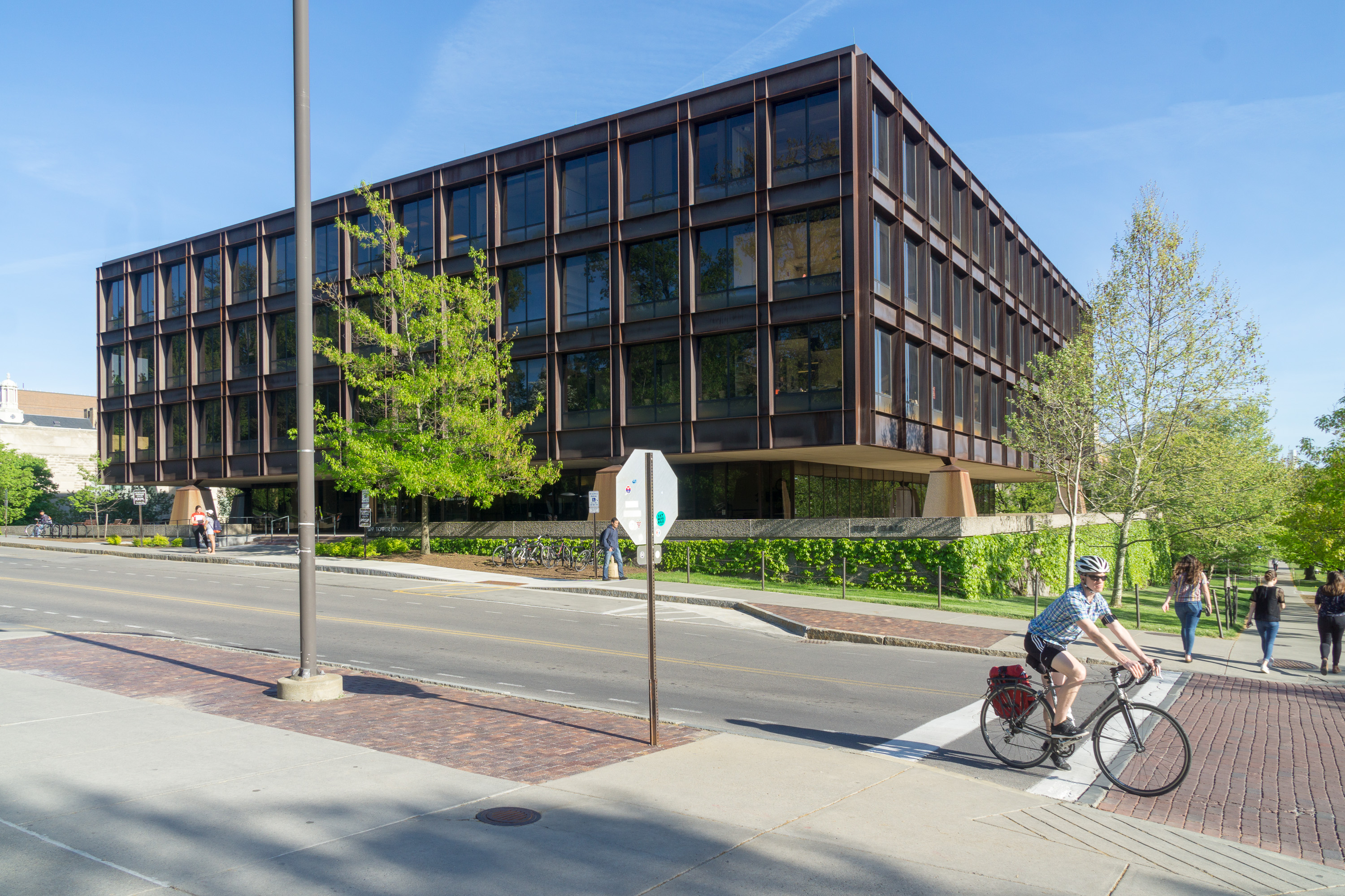 Uris Hall and cyclist, Cornell University, Ithaca, NY